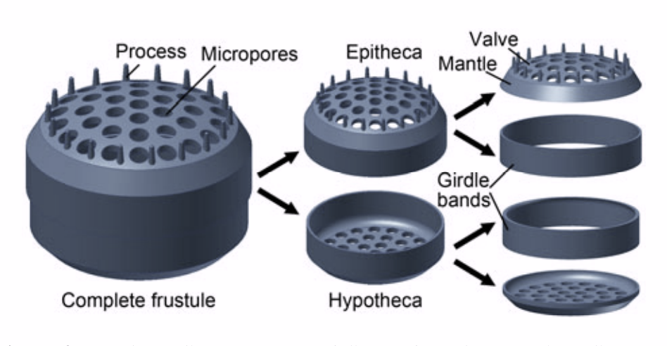 Structure of diatom frustules (centricae diatom)